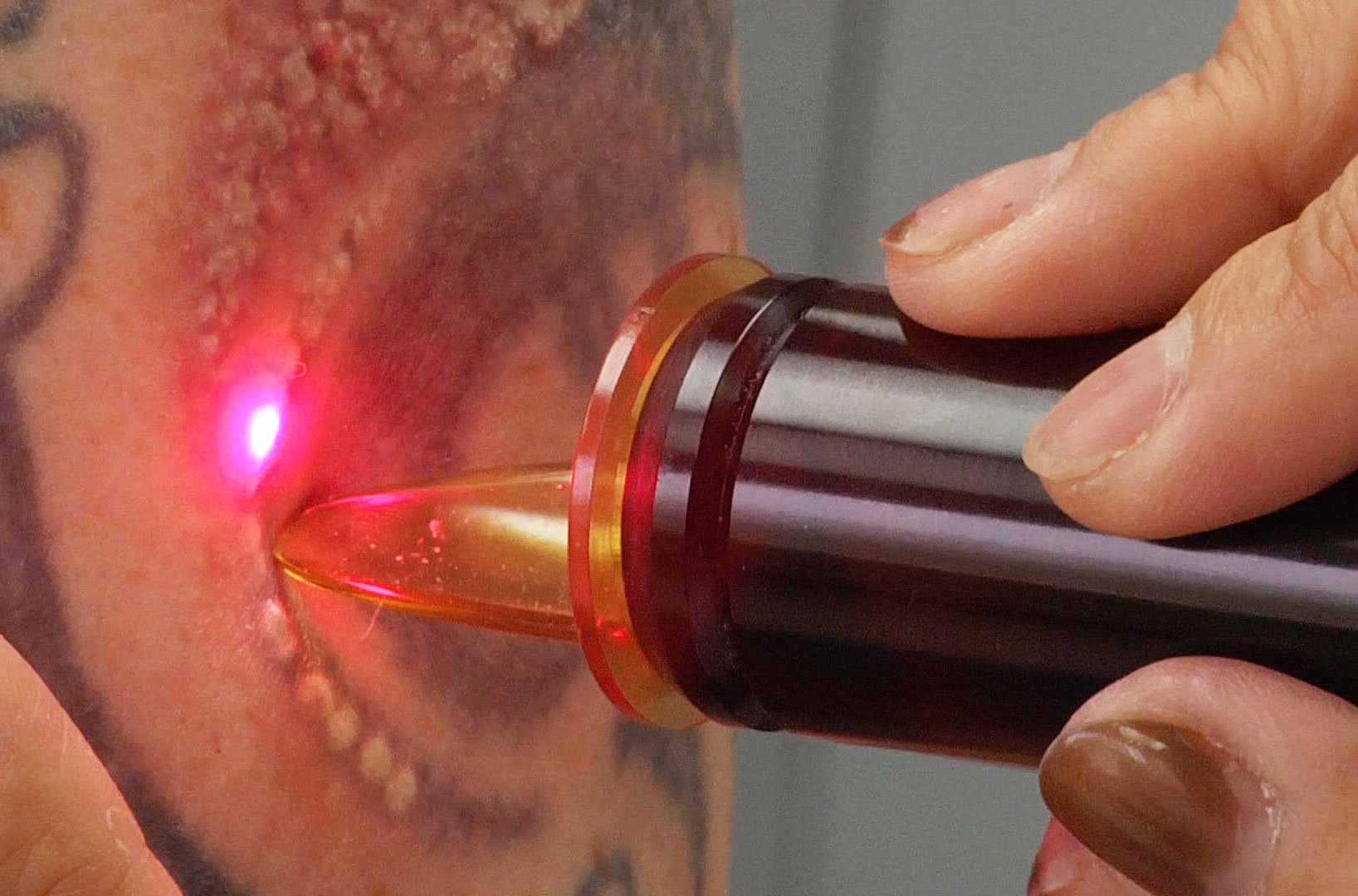 Laser Tattoo removal performed by Alice S. Pien MD, Medical Director of AMA Skincare